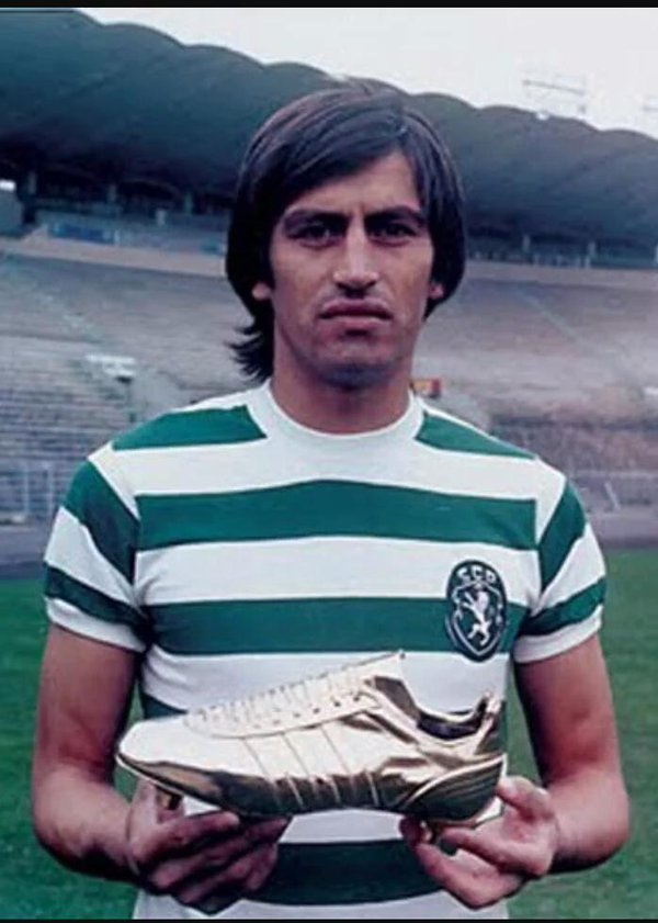 Hector Yazalde, Sporting Clube de Portugal player, UEFA European Golden Shoe in 1974.